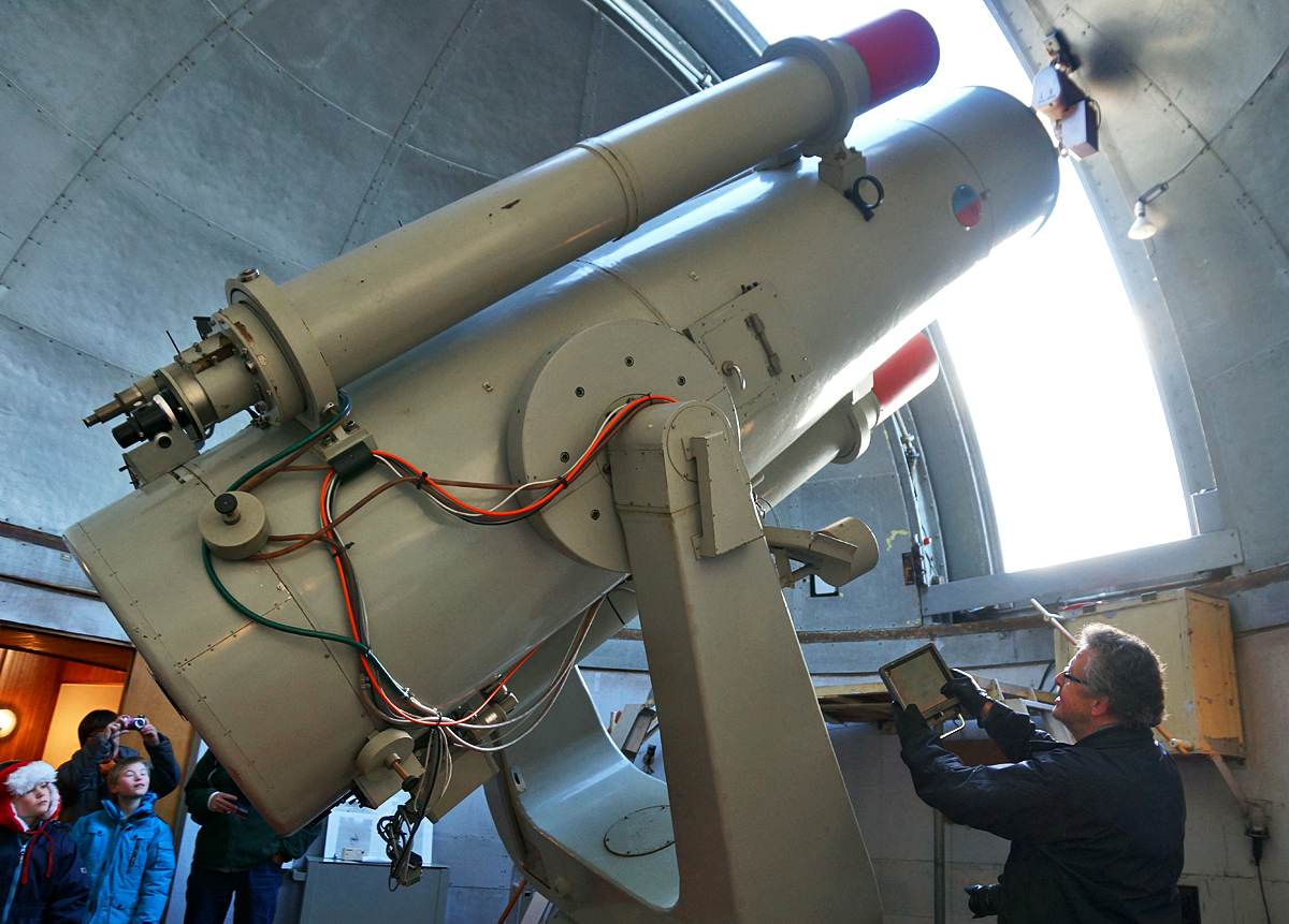 The Schmidt Telescope at the former Brorfelde Observatory is now used by amateur astronomers. The telescope from 1966 is still located in the same building in Brorfelde as originally. Today the telescope has a 77 cm mirror and a digital 2048x2048 pixel CCD-camera. Originally photographic film was used, and in the lower right part an engineer is showing the former film-box, which was then placed behind the locker at the center of the telescope (at the prime focus).